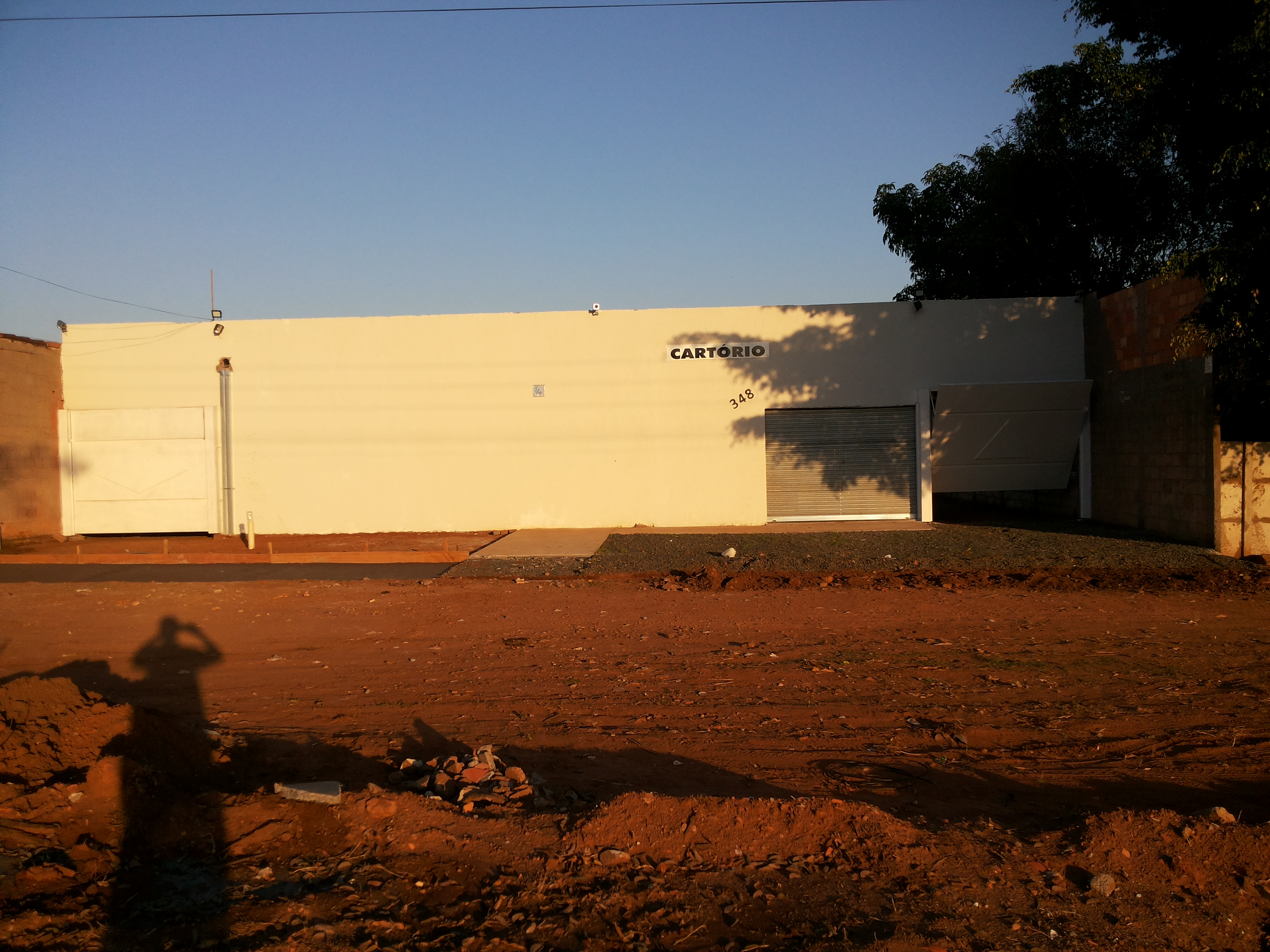 Cartório morada nova miraporanga uberlândia